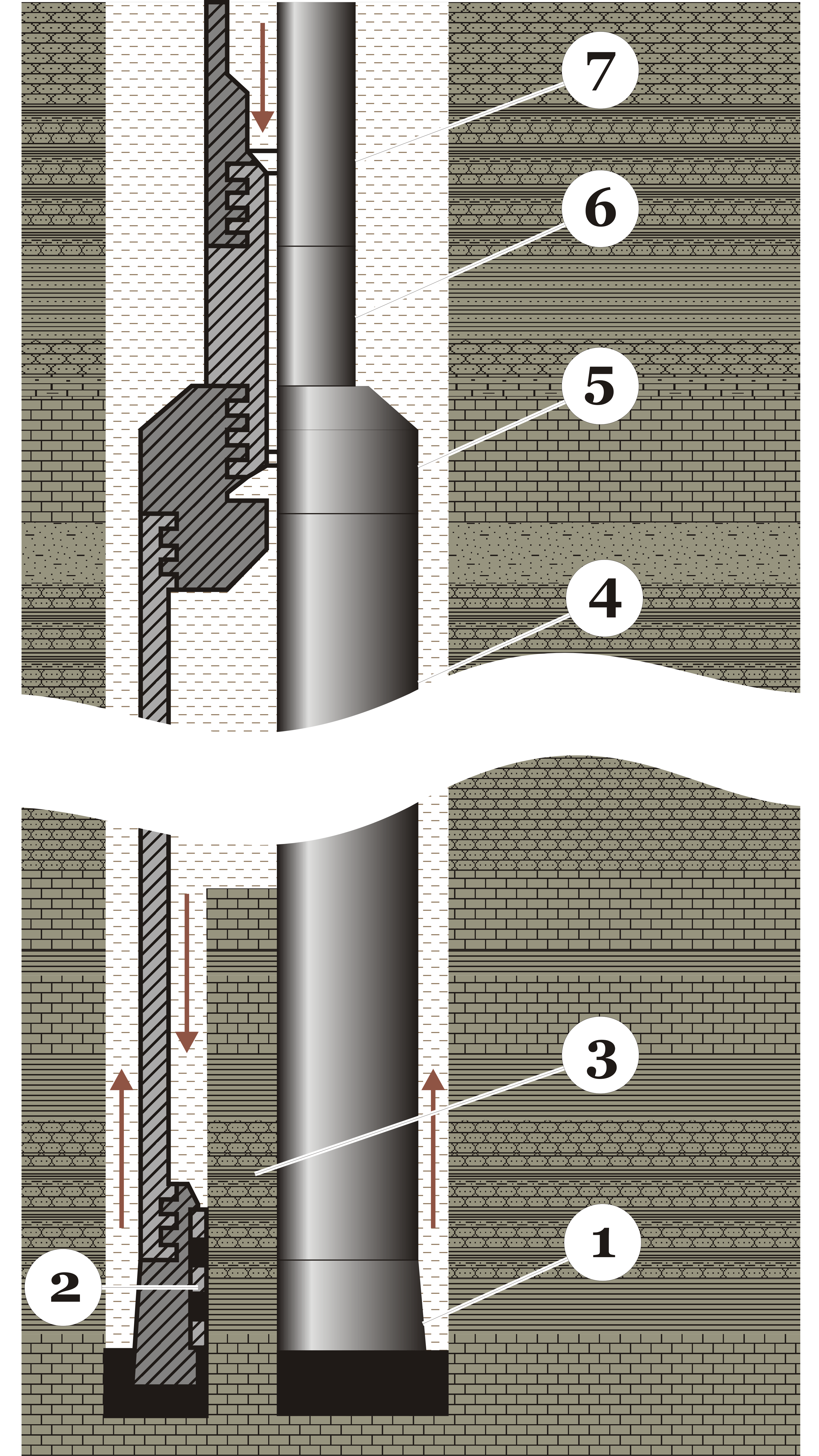 Scheme of core drilling